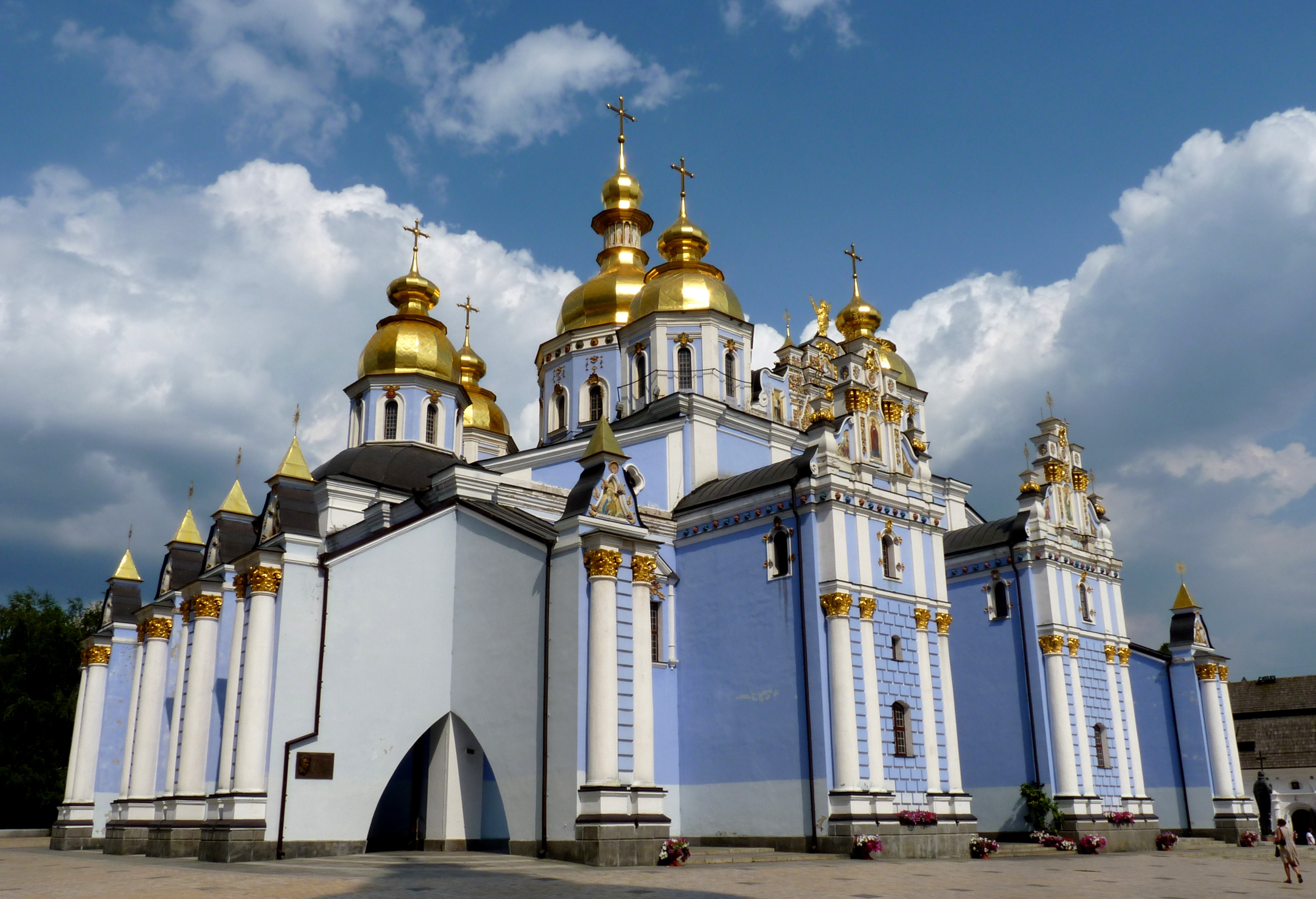 St. Michael's Golden-Domed Monastery (Ukrainian: Михайлівський золотоверхий монастир, Mykhaylivs’kyi zolotoverkhyi monastyr